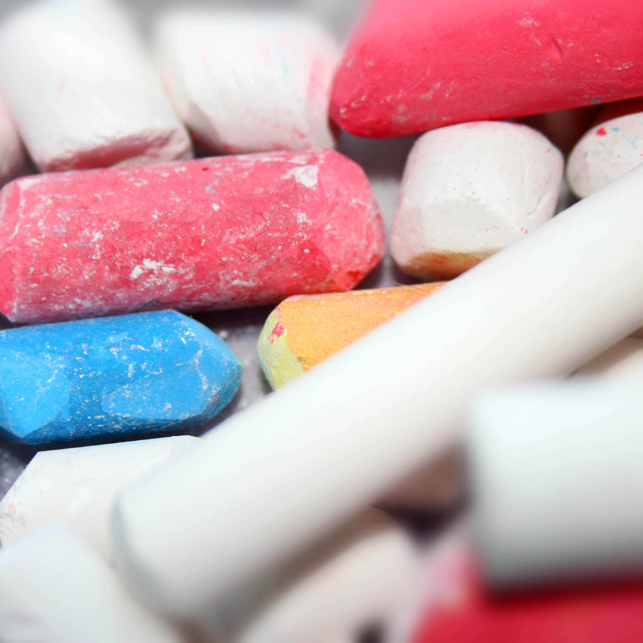 different chalks in the school